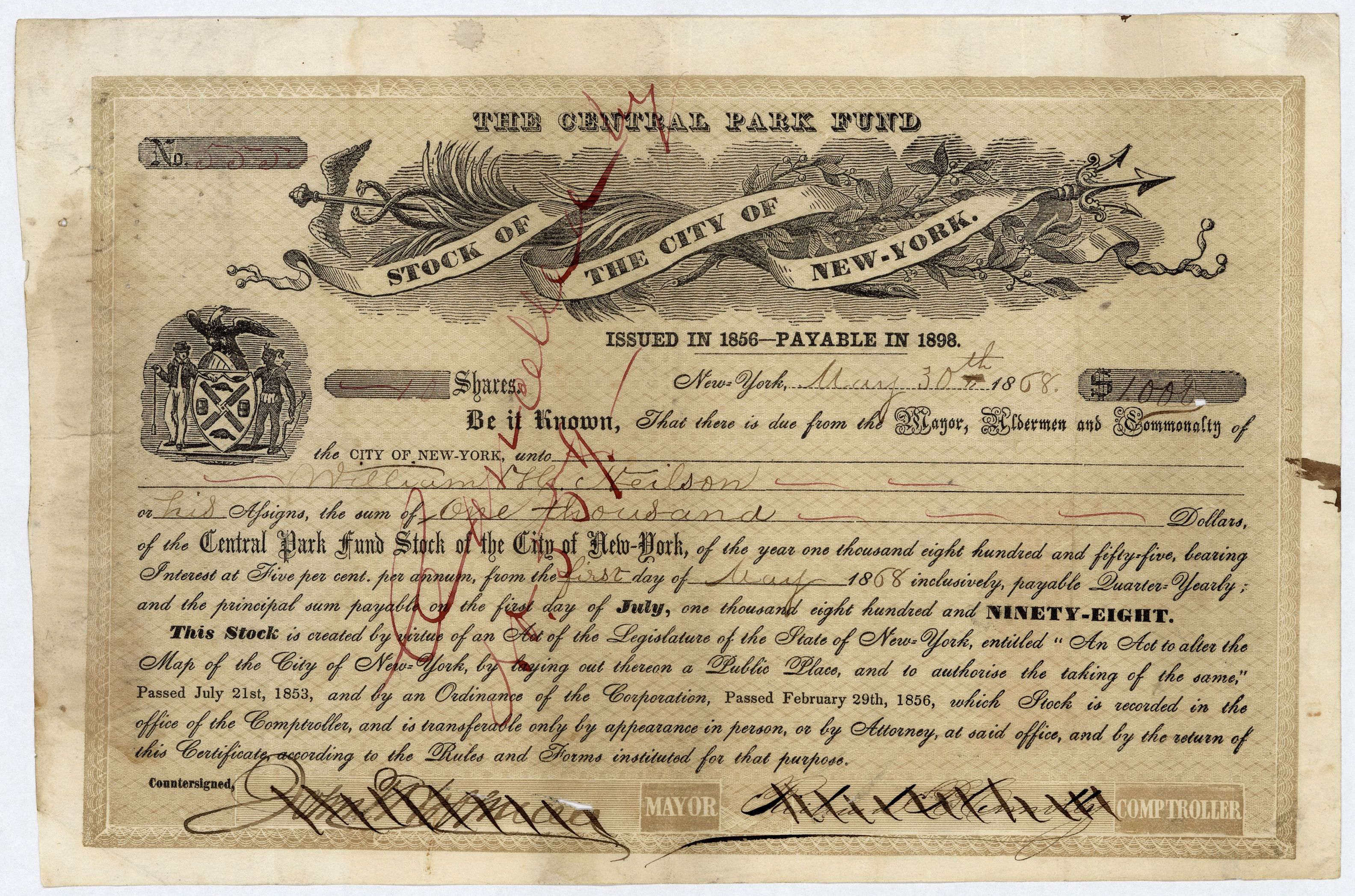 5 % Fund Stock of the Central Park Fund, issueed 30. May 1868